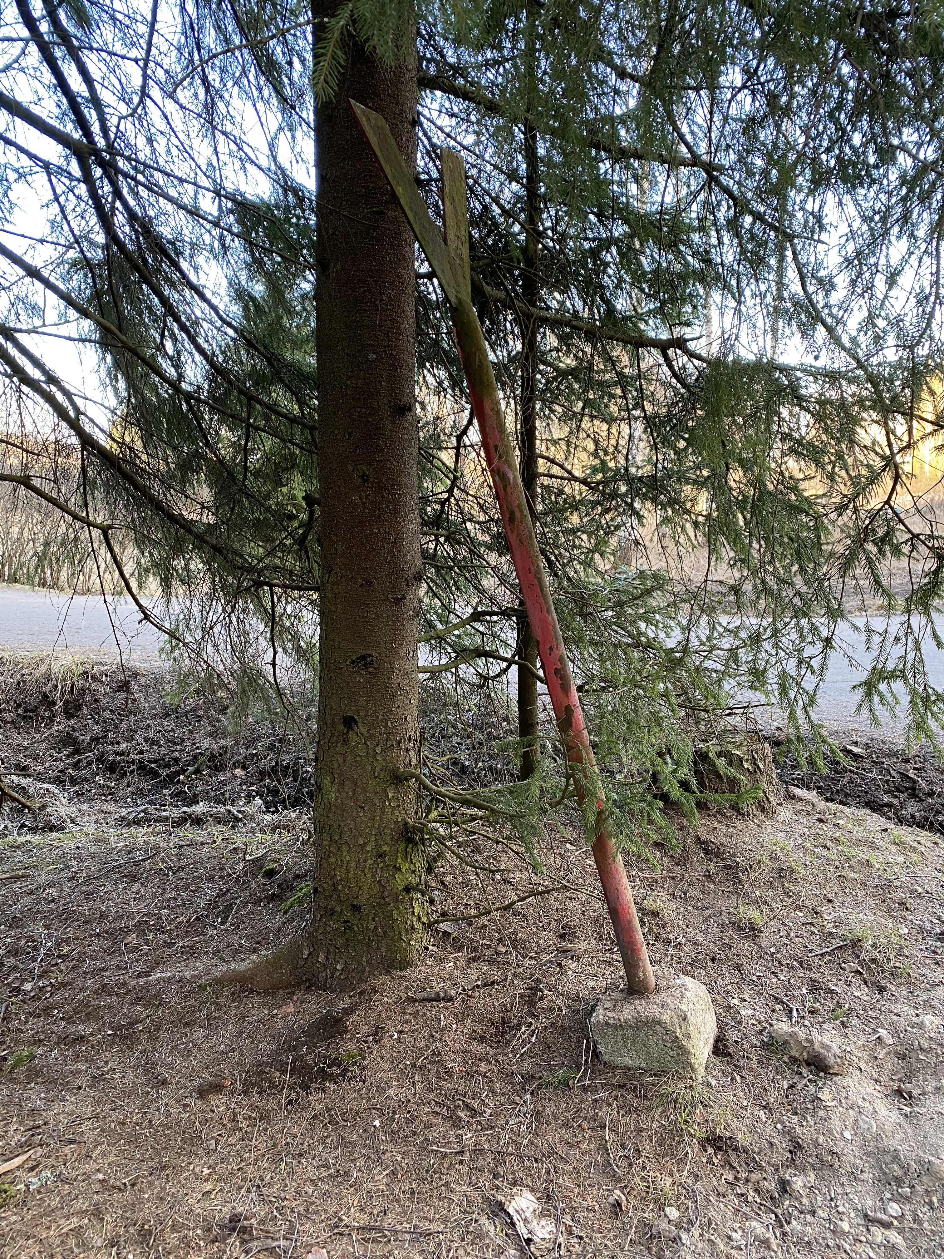 In the 1900s, wells for fire water were marked with this kind of symbols (a wooden or metal pole with letter V).